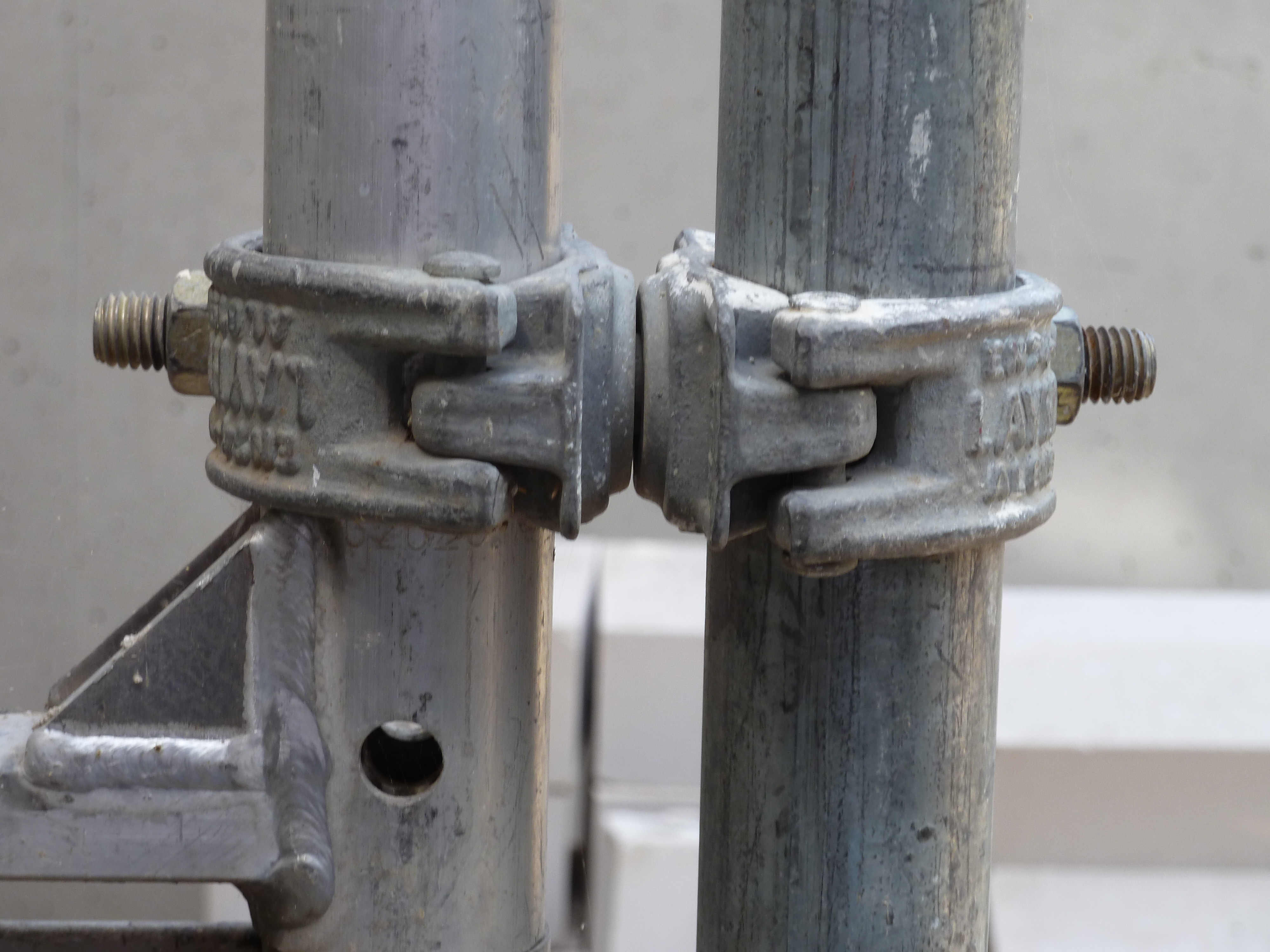 Metal scaffolding: coupler